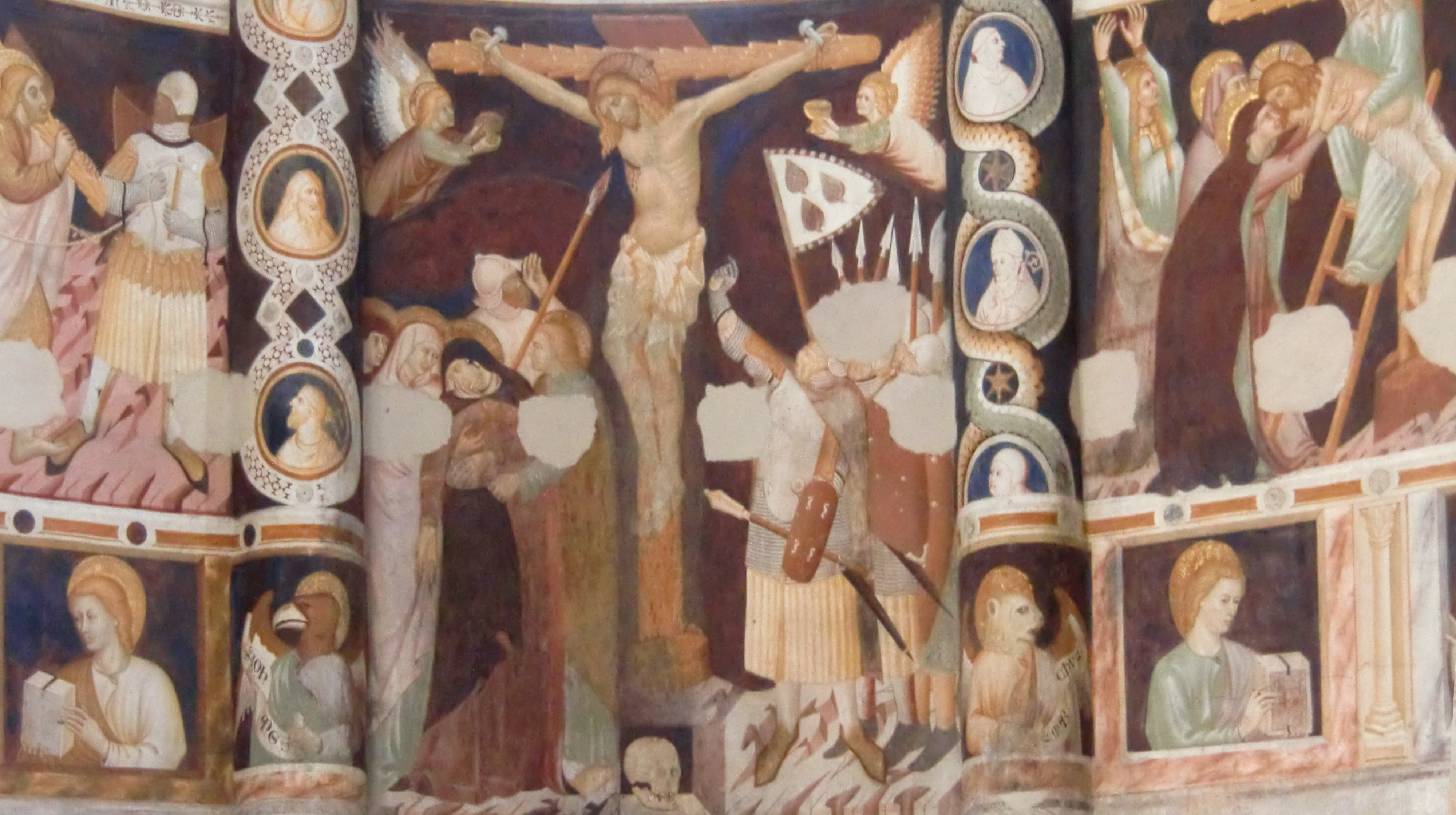 Unknown painter of XIV century, Crucifixion", frescoes of the apse, 1320 ca., Basilica of Sant'Abbondio, Como (italy)